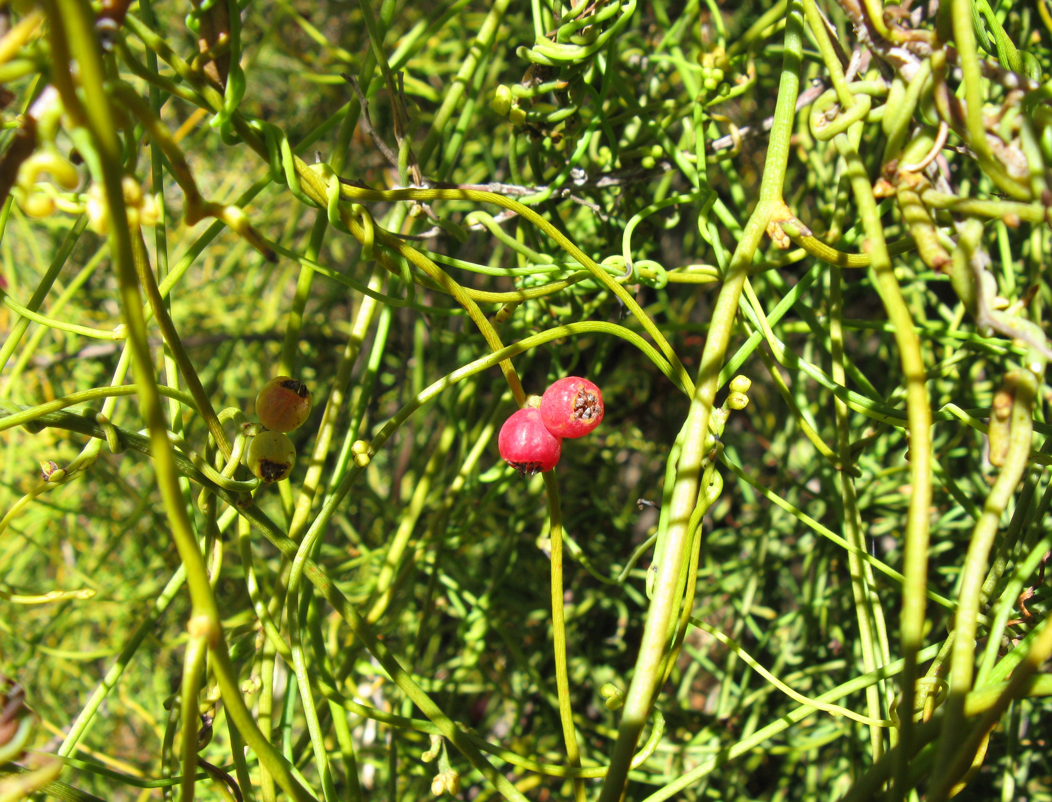 Cassytha ciliolata showing fruit, flowers and buds. Haustoria visible on host and on its own stems.